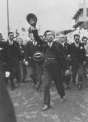 Emperor Showa's visit to Kurume in 1949